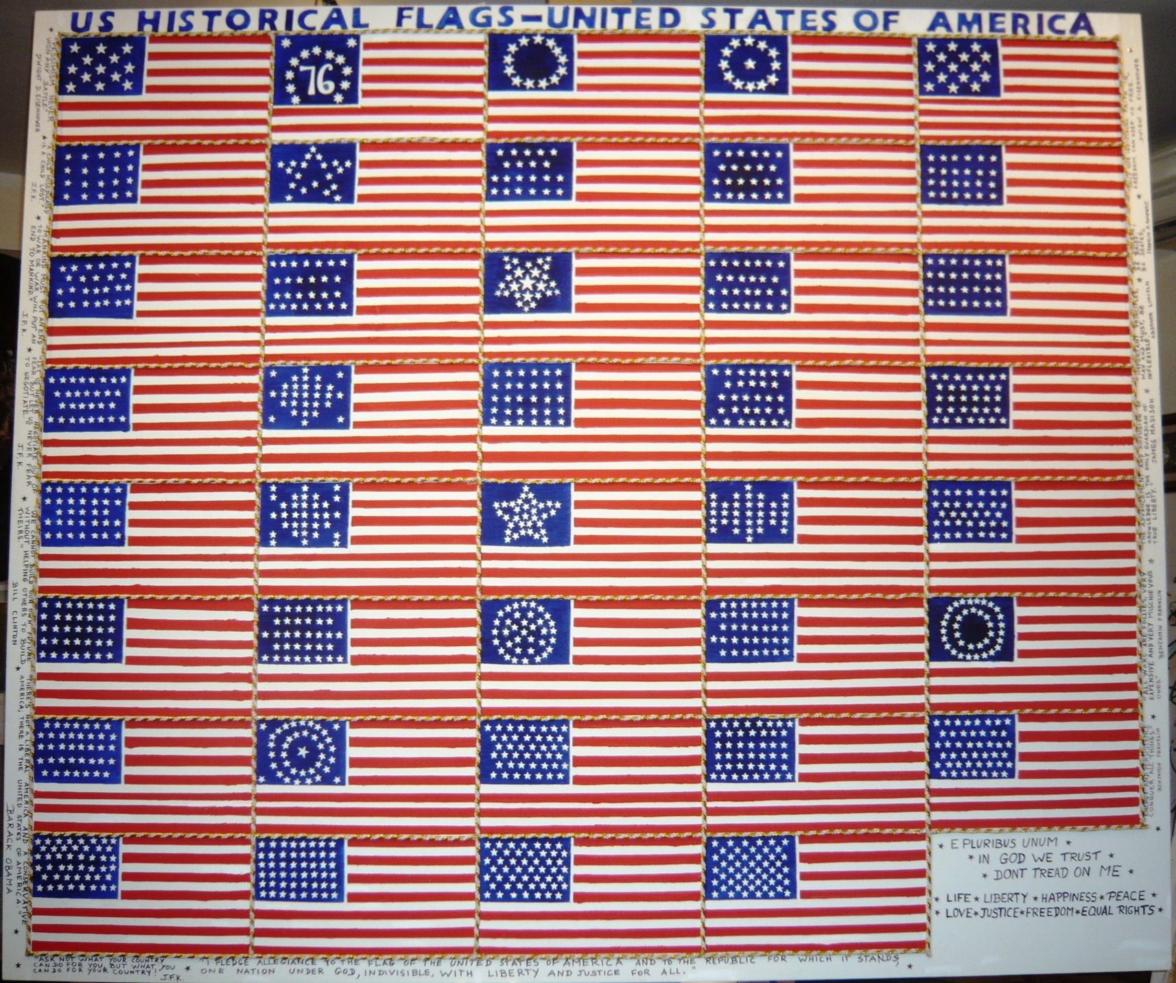 Oil painting of the US historical flags of the United States of America